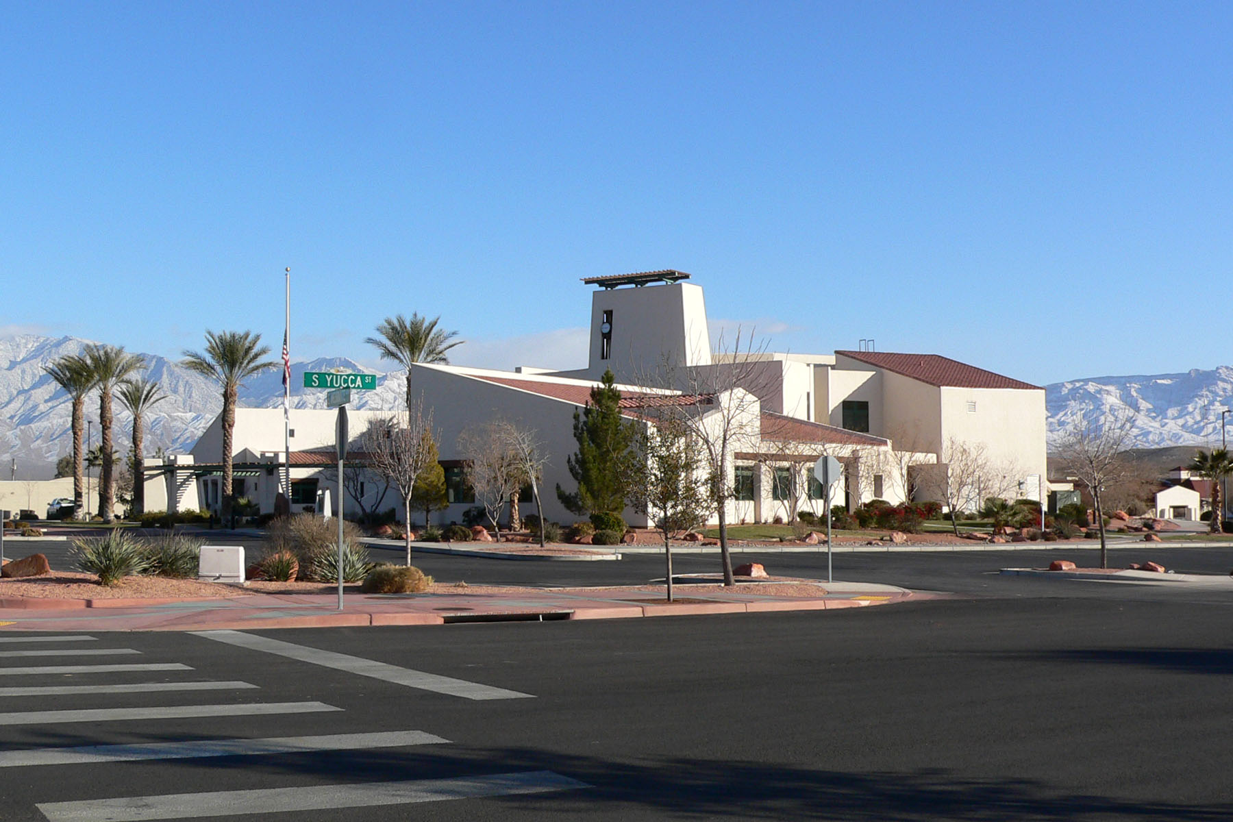 City hall, Mesquite, Nevada